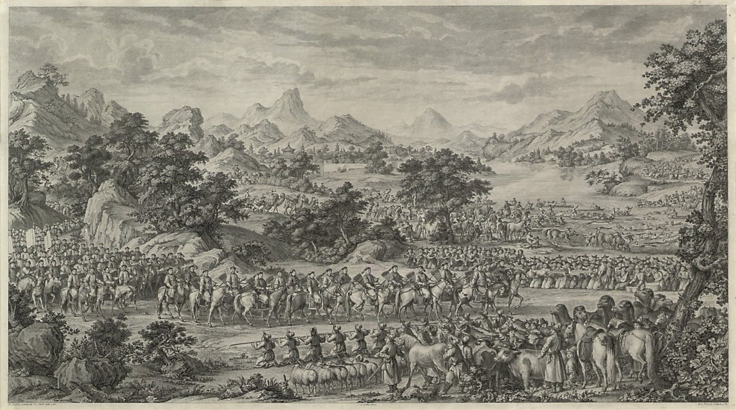 "The Submission of the Ili") : This refers to the first submission of the Ili in 1755. The Chinese troops marched in spring and, upon reaching Kouldja, encountered no resistance. Drawn by Ignatius Sichelbart, 1765; engraved by Benoît-Louis Prévost, 1769 (First of the 16 commissionned for Les Conquêtes de L'Empereur de la Chine)